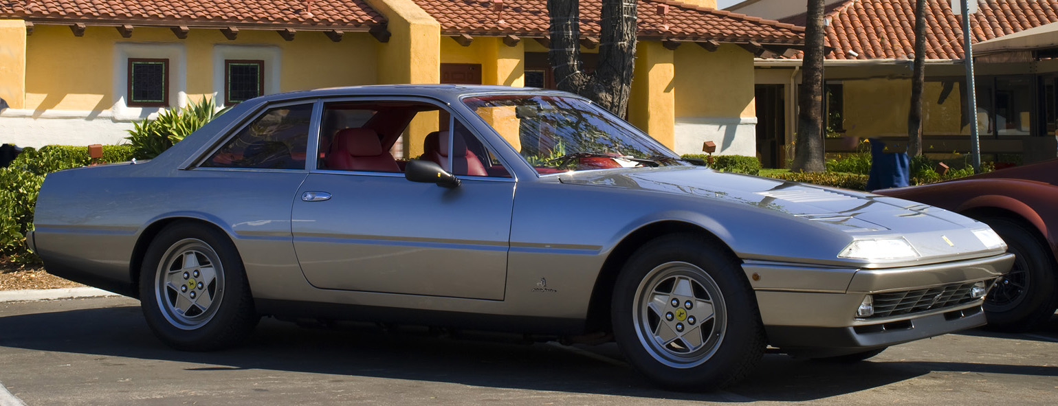 1988 Ferrari 412 at Enderle Center - Tustin, CA